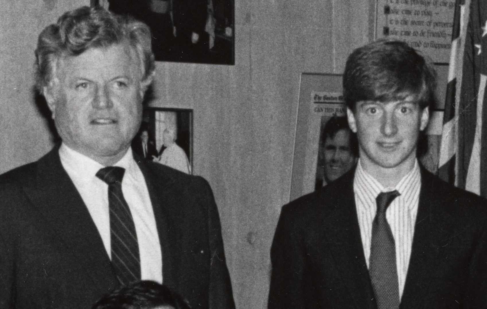 Title: Back row Mayor Raymond L. Flynn, Senator Edward M. Kennedy and Patrick Kennedy, Front row Darryl Williams, Director of Handicapped Affairs Commission Charles Sabatier and Darryl Stingley Creator: Mayor's Office - City Photographer Date: 1985 Source: Mayor Raymond L. Flynn records, Collection #0246.001 File name: RF_0243 Rights: Copyright City of Boston Citation: Mayor Raymond L. Flynn records, Collection #0246.001, City of Boston Archives, Boston